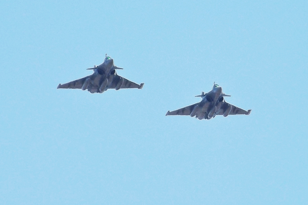 French Navy Rafales 28 & 13 running break at Leuchars